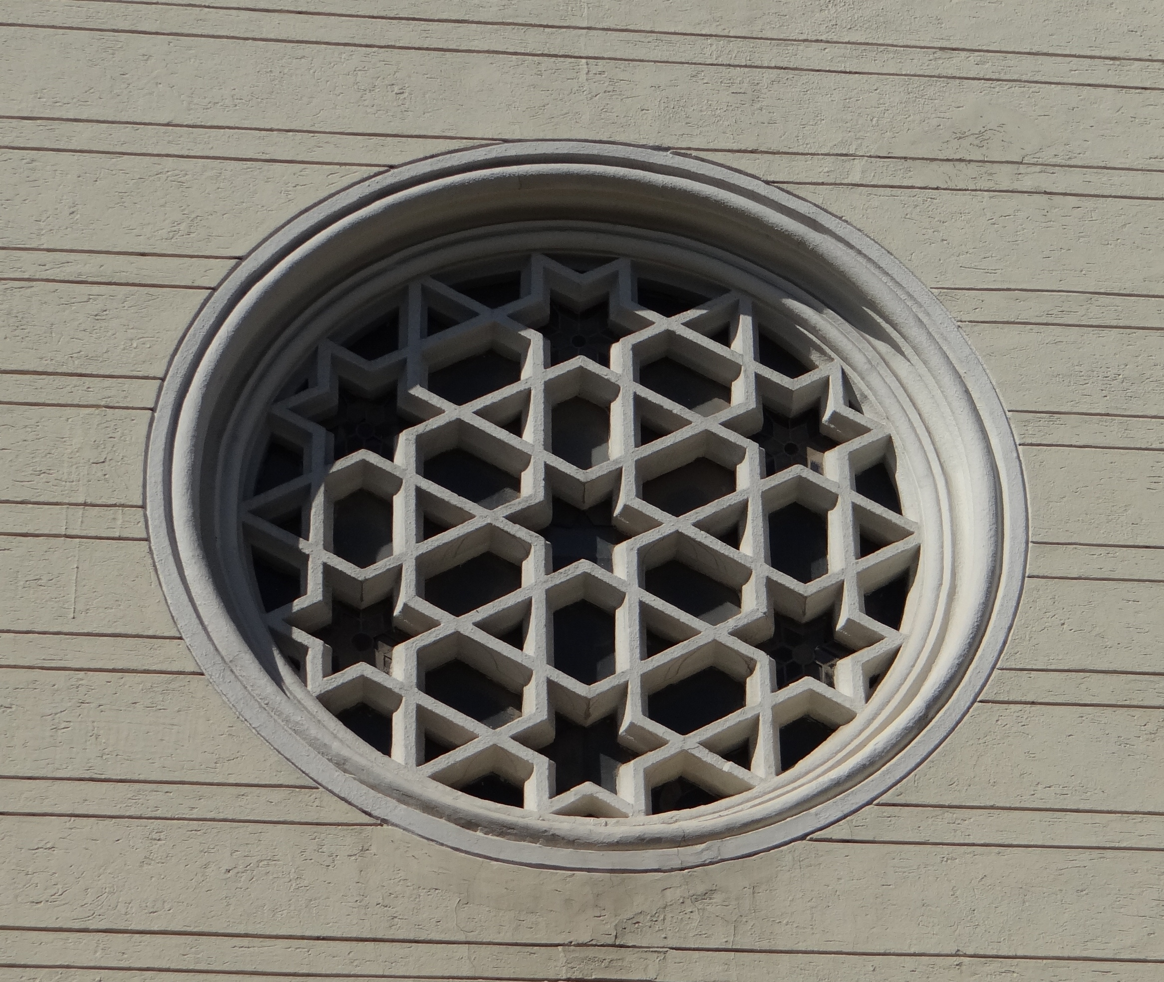 Synagogue window, Kazinczy Street, Miskolc, Hungary